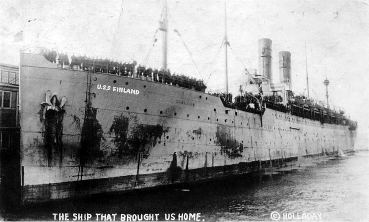 USS Finland (ID # 4543) In port in 1919, with troops on board, probably upon arrival from Europe. Photographed by Holladay, Newport News, Virginia. The original image was printed on postal card ("AZO") stock. Donation of Dr. Mark Kulikowski, 2006. U.S. Naval Historical Center Photograph.